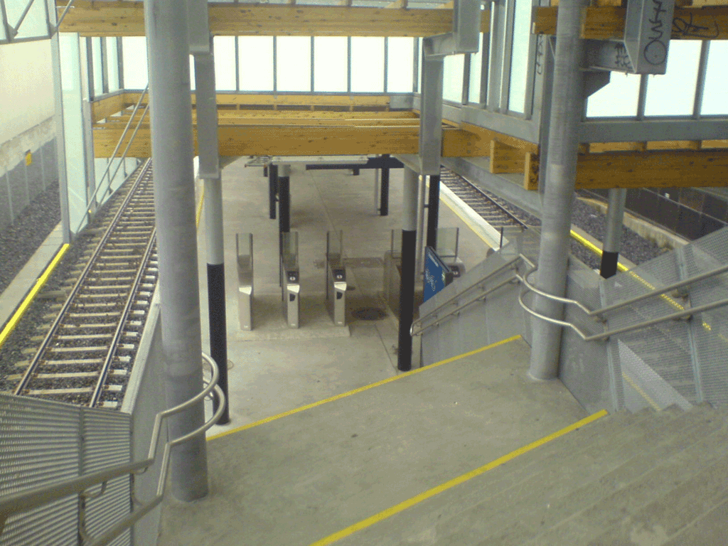 Sinsen t-bane station in Oslo, Norway.